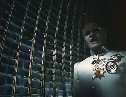 The police minister is rebuffed by Psyche